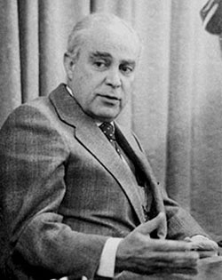 U.S. Ministers and Ambassadors to Russia, American Embassy, Moscow